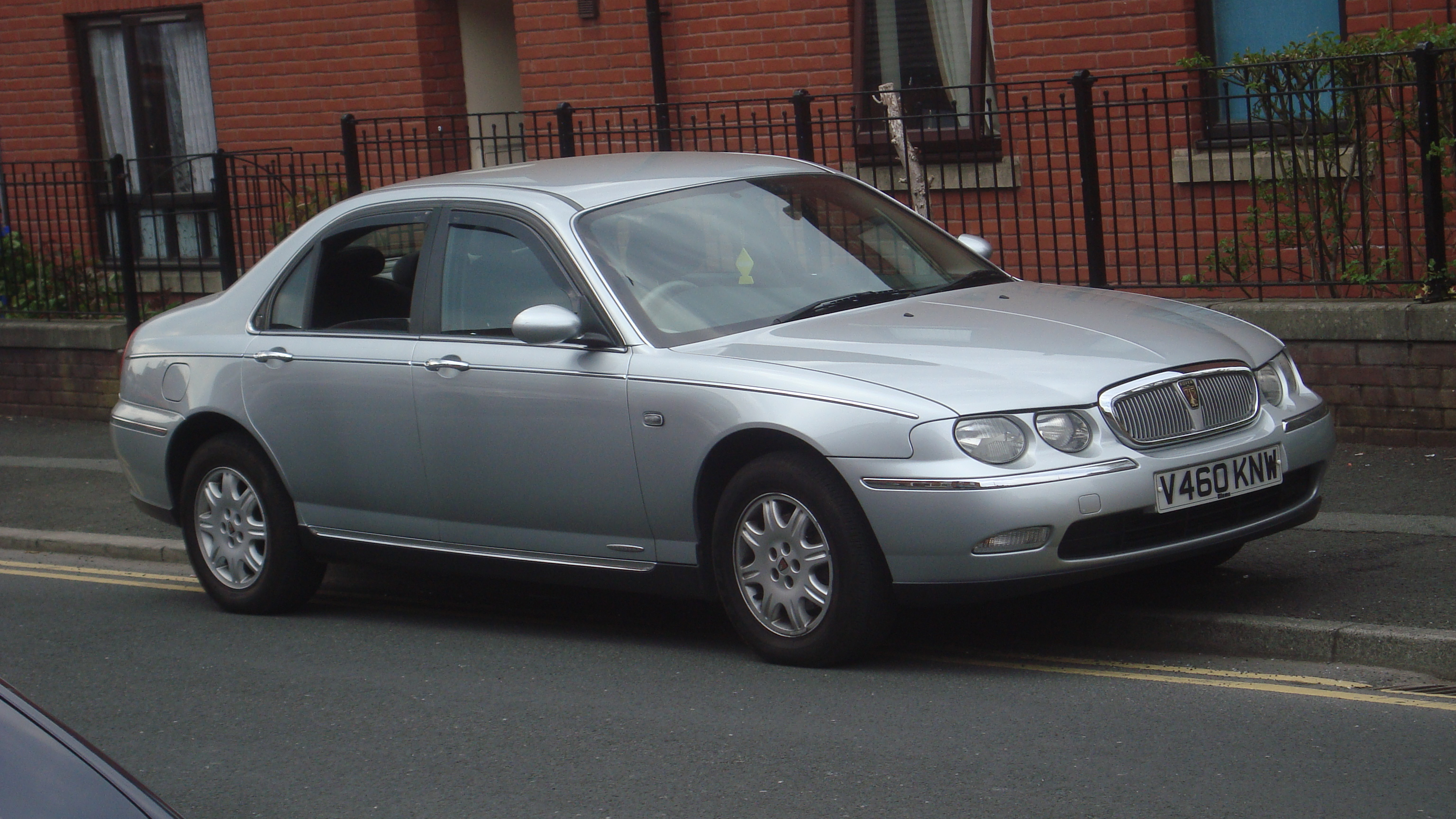 Looking very tidy and showing just 56,784 miles when it was MOT'd last August. Most of the 75's I see tend to be Y Reg or newer so I thought this was worthy of a photo